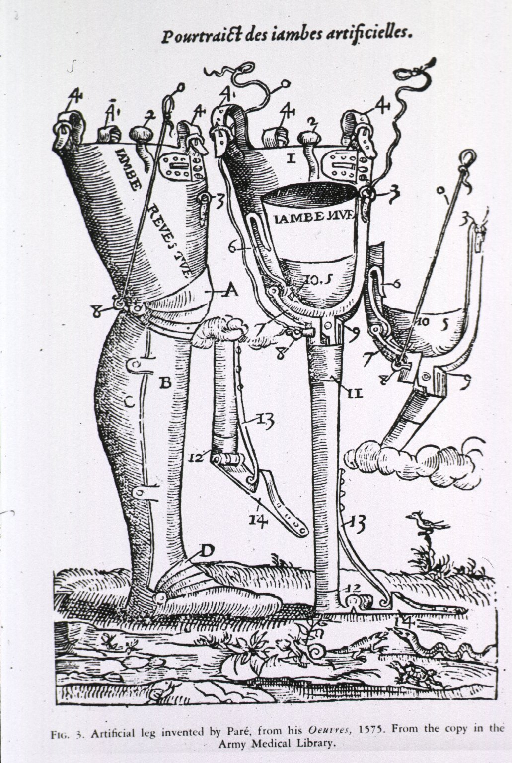 a woodcut showing full and cutaway views of an artificial leg with joints at the knee and ankle